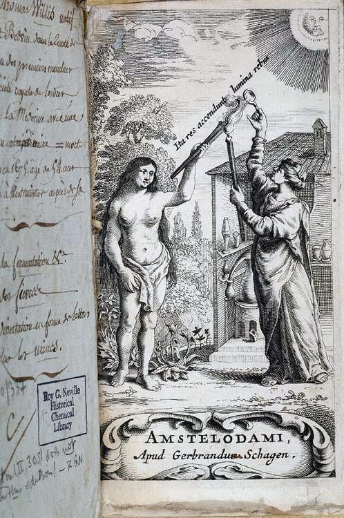 Frontispiece to Thomas Willis' 1663 book "Diatribae duae medico-philosophicae - quarum prior agit de fermentatione", engraved and published by Gerbrandus Schagen in Amsterdam, with inscription by Lucretius "Ita res accedent lumina rebus", or Truths kindle light for truths